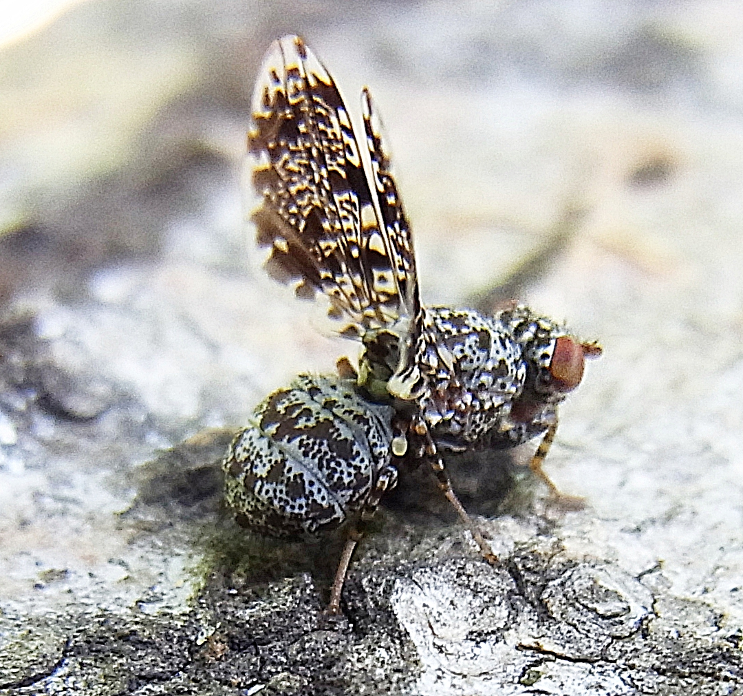 Callopistromyia annulipes from France in the Foret de Palleau north of Chalon sur Saone at 2011-07-15, after Diiptera-info first record in France